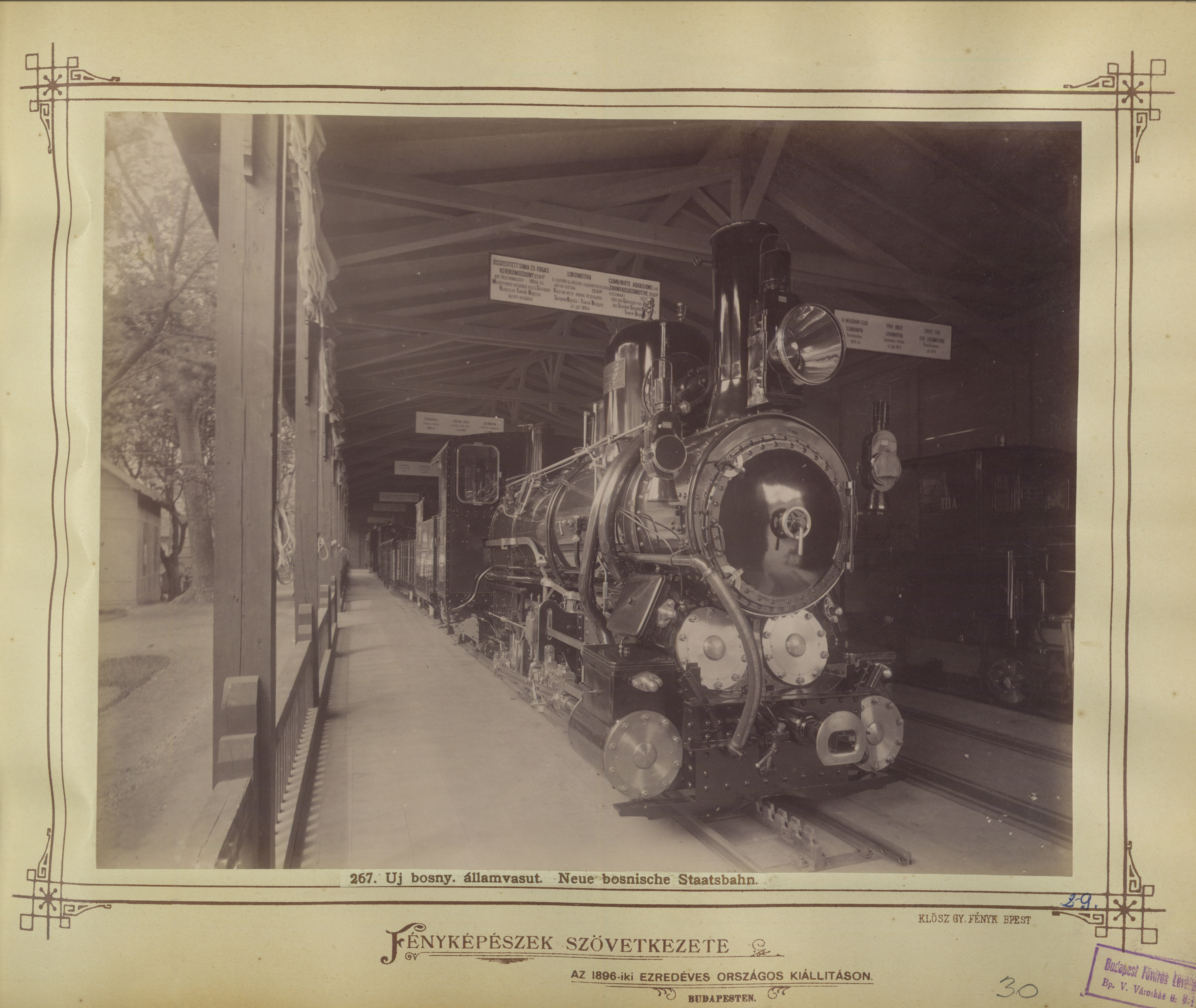 Hungary, Budapest XIV, City Park, "Hungarian National Millennium Exhibition of 1896" - The new Bosnian state railway locomotive. This locomotive was manufactured by Lokomotivfabrik Floridsdorf in 1896 (No. 1001) for the rack railways in Bosnia and Herzegovina (Sarajevo - Konjic and Travnik - Bugojno). Its number was BHStB 705, and later JDŽ 97-005. The first locomotive of this type was manufactured in 1894.